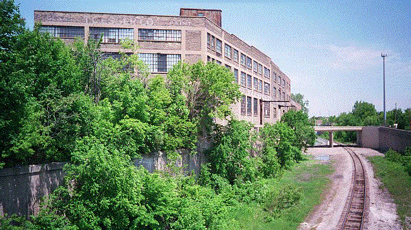 rear view of T. C. Esser Paint factory in Milwaukee, showing the railroad tracks in back of the plant